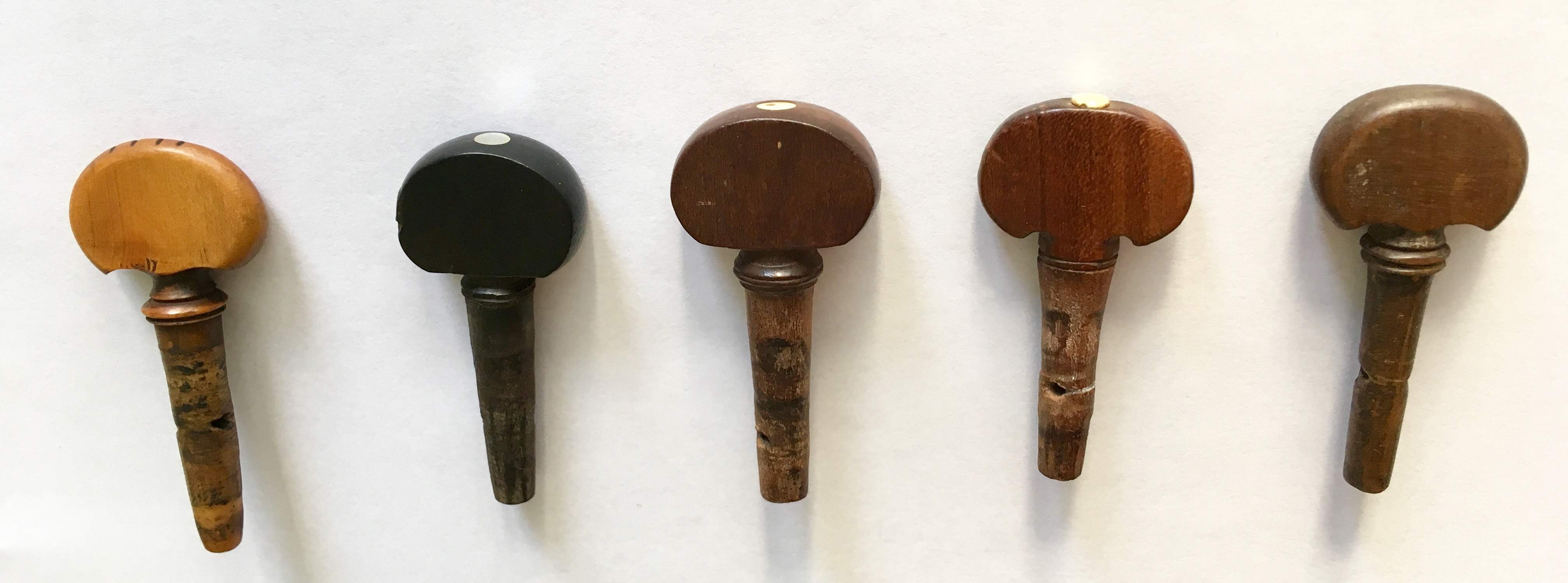 Violin pegs from 18th century